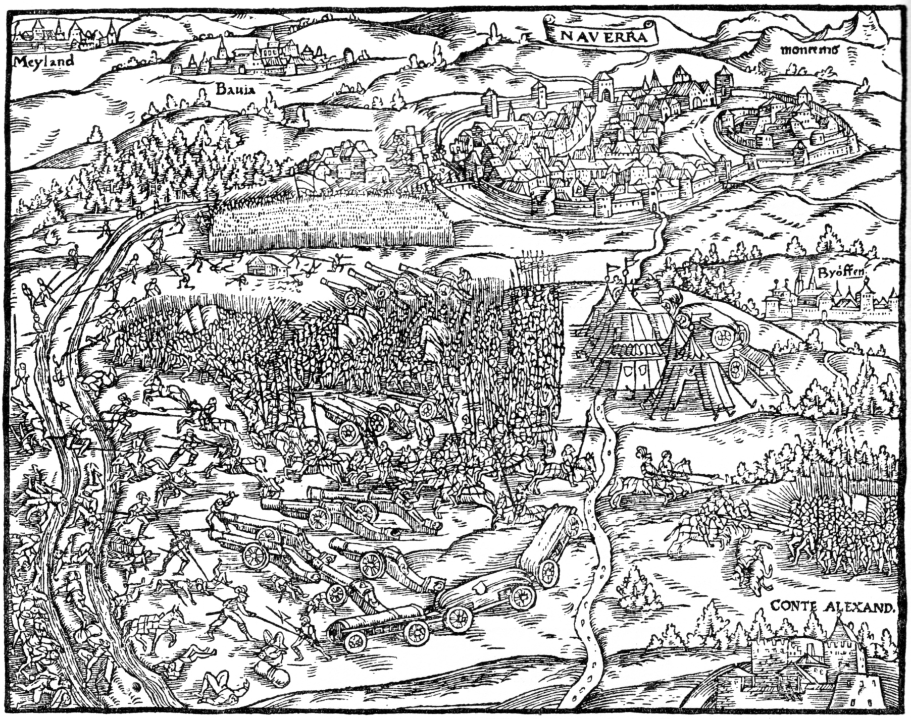 The battle of Novara 1513 on a woodcut in the cronicle of Stumpf, 1548